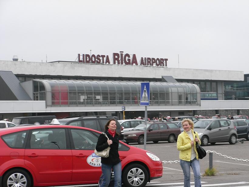 Riga International Airport - The airport terminal has the head office of AirBaltic